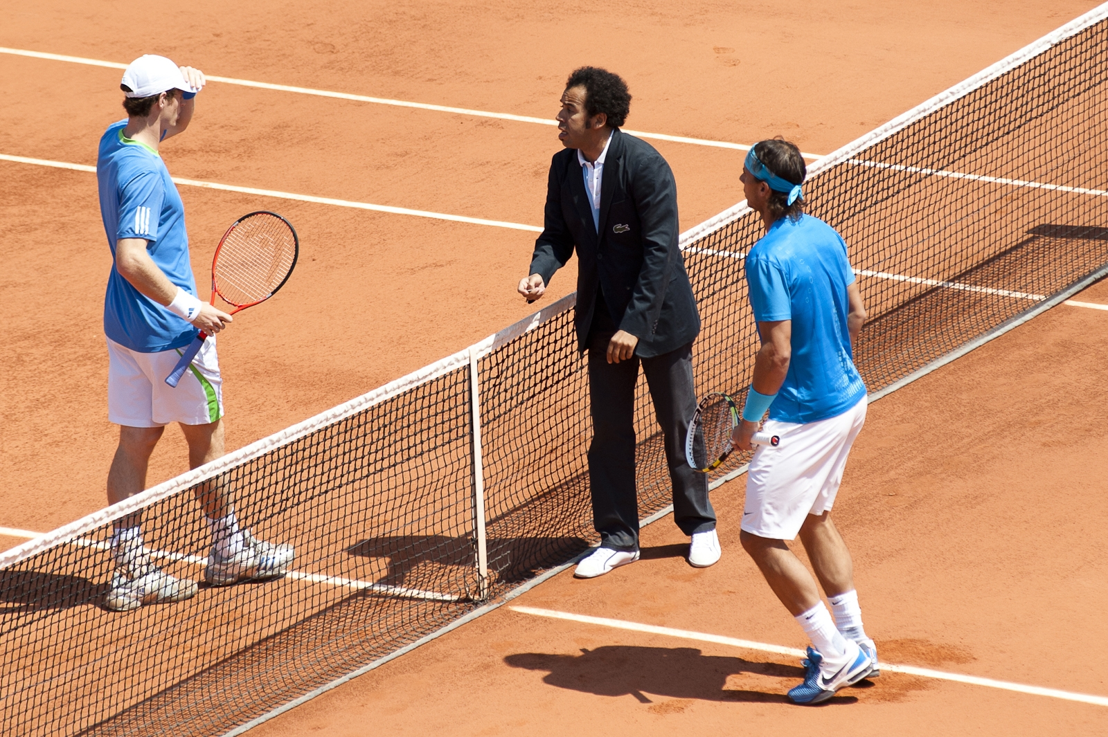 Andy Murray (L) Rafa Nadal (R)